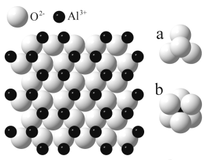 The fundamental Layer of Corundum Crystal Hinonbey 02:21, 27 September 2006 (UTC)